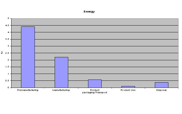 energy thomas chart